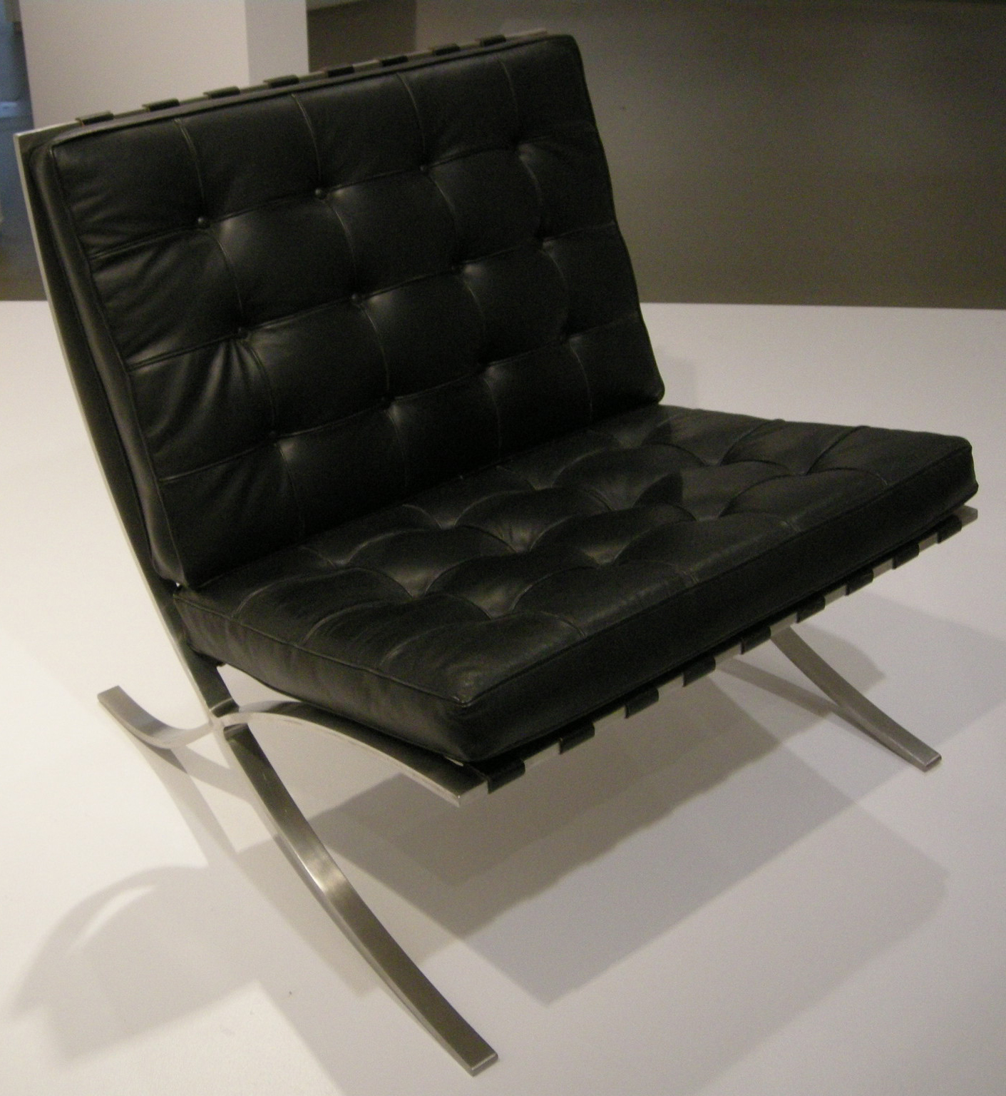 Ngv design, ludwig mies van der rohe & co, barcelona chair